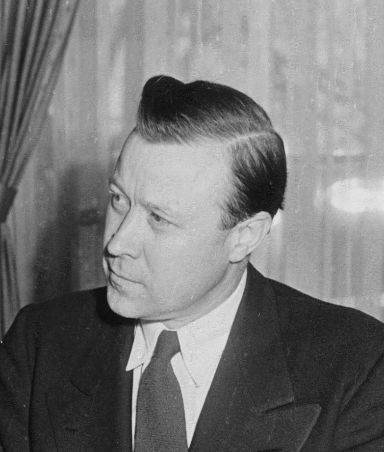 Walter P. Reuther in the Oval Office, December 1952